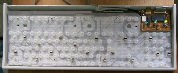 Inside of keyboard